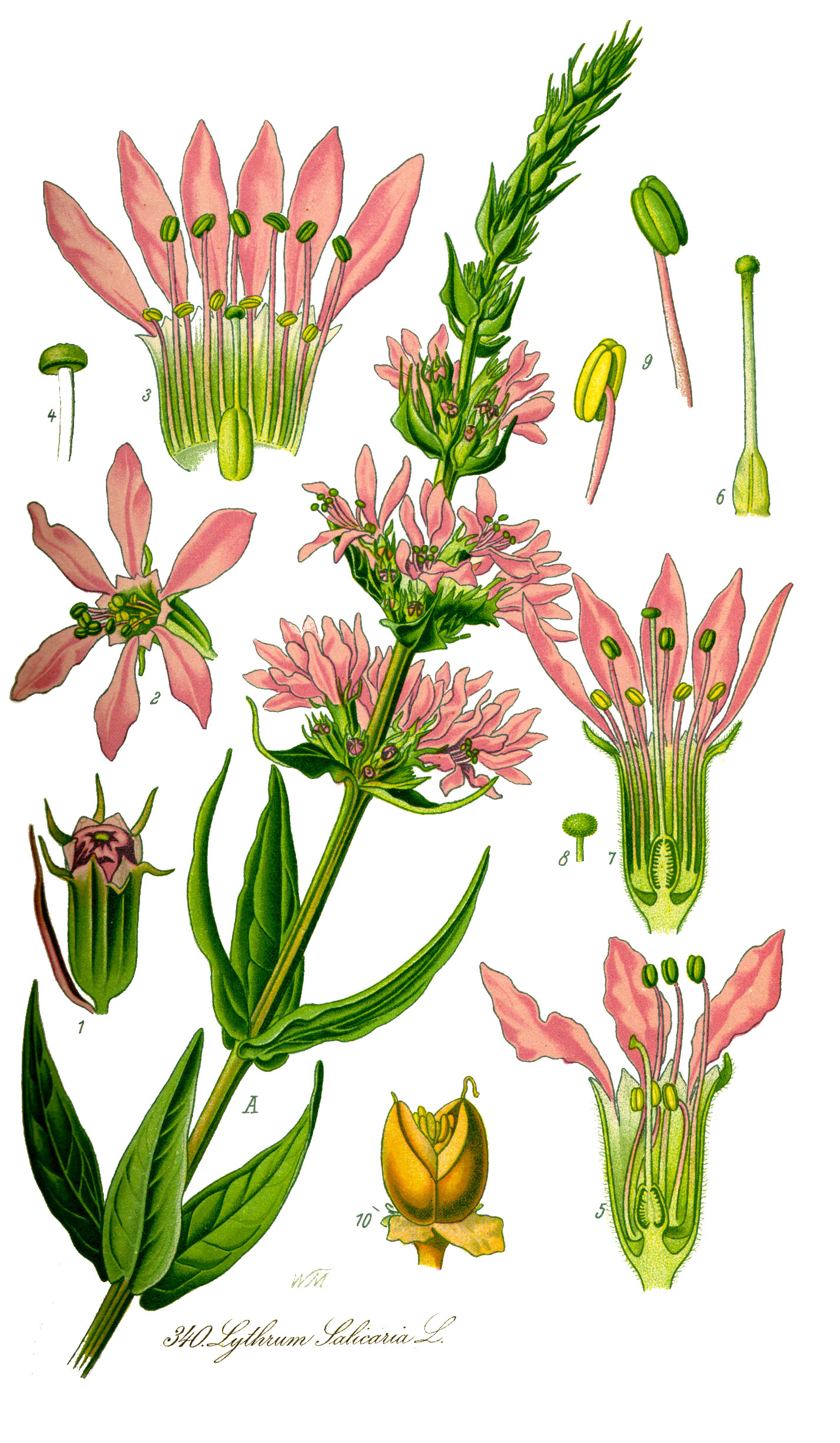 Name Lythrum salicaria Family Lythraceae